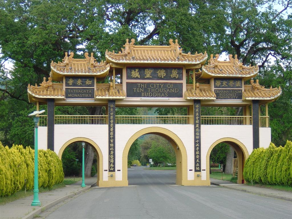 Picture taken by me, Qin Zhi Lau at the City of Ten Thousand Buddhas.